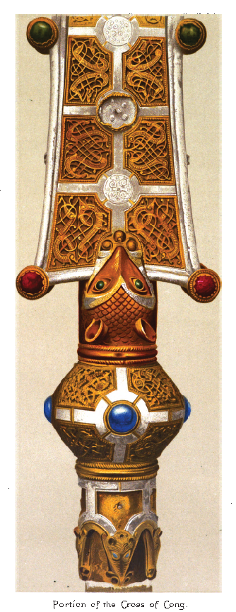 image from book about the Cross of Cong